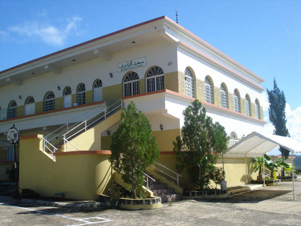 Islamic Center of Vega Alta, Puerto Rico